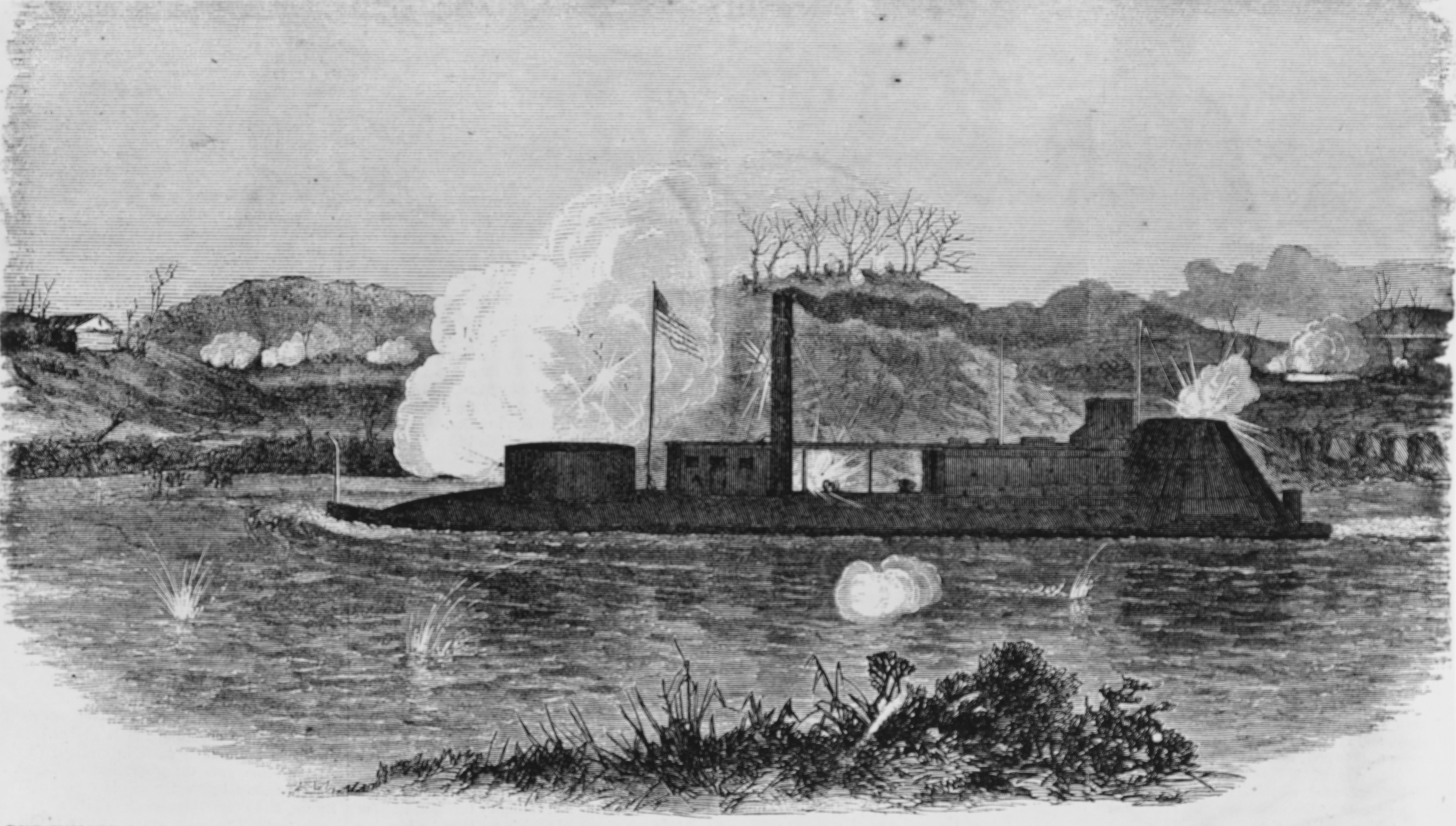 Line engraving, after a sketch by Adam Rohe, published in Harper's Weekly, 31 December 1864, depicting the action near Bell's Mills, Tennessee. U.S. Naval History and Heritage Command Photograph.